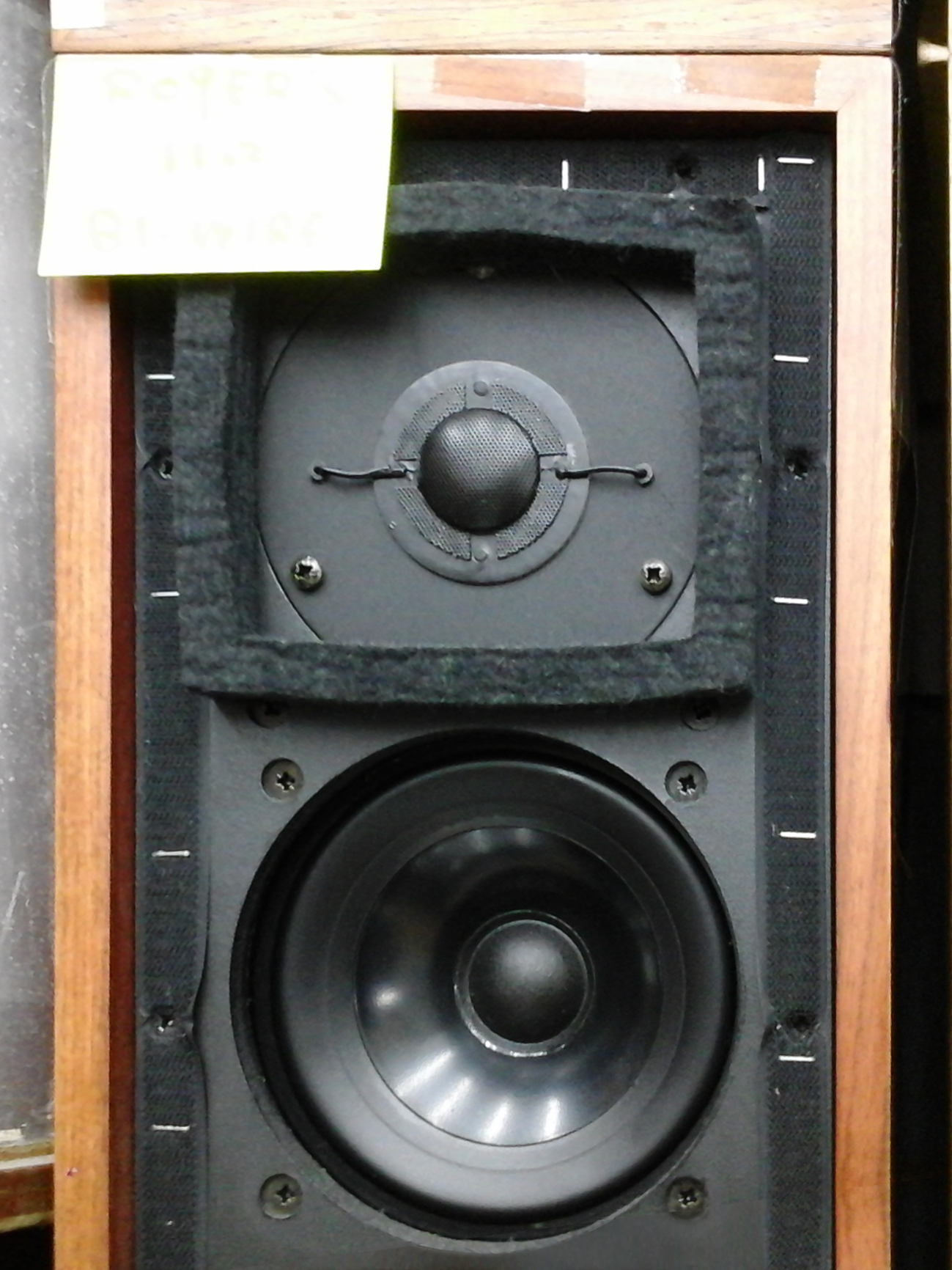 An LS3/5A in a secondhand store in Hong Kong without its grille, and showing the KEF B110 cone and the KEF T27 tweeter 15 December 2013 Author, and attribution please to, Ohconfucius quote from Wikipedia:en:LS3/5A “The speaker with its characteristic diffraction-absorbing foam surround for tweeter”